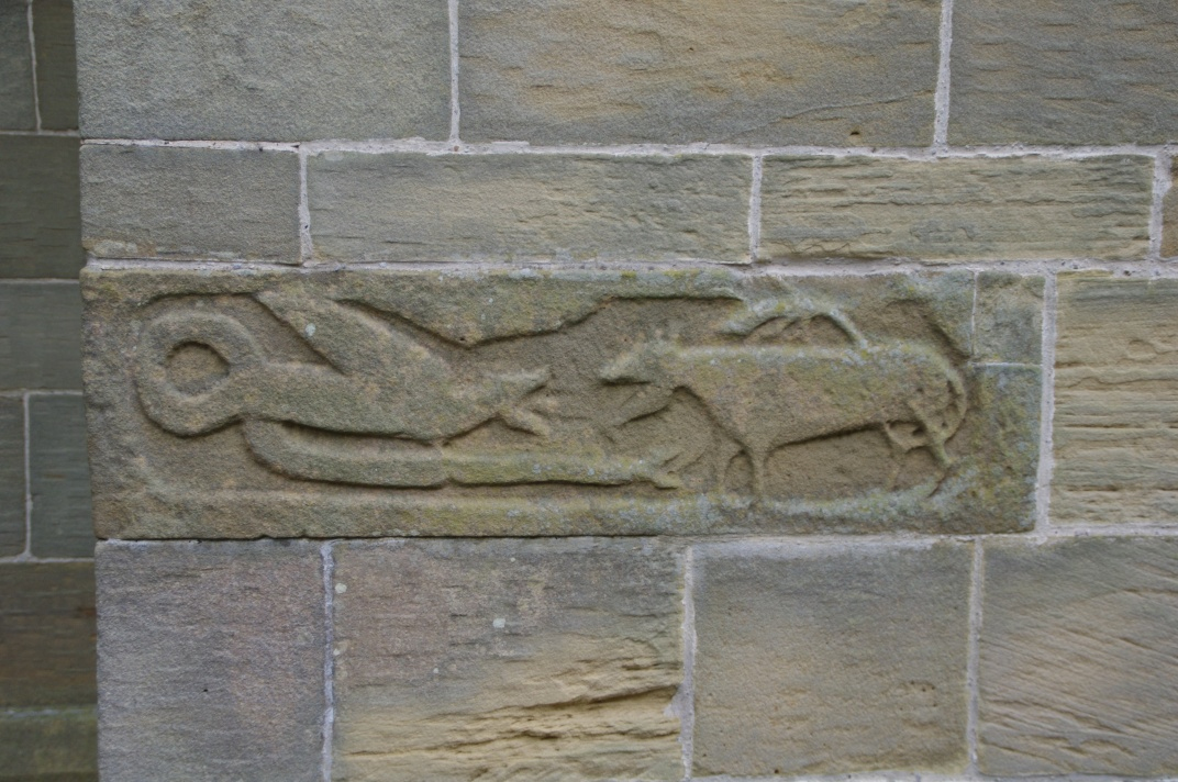 Church of St Oswald - Anglo Saxon carving on stone incorporated into the tower